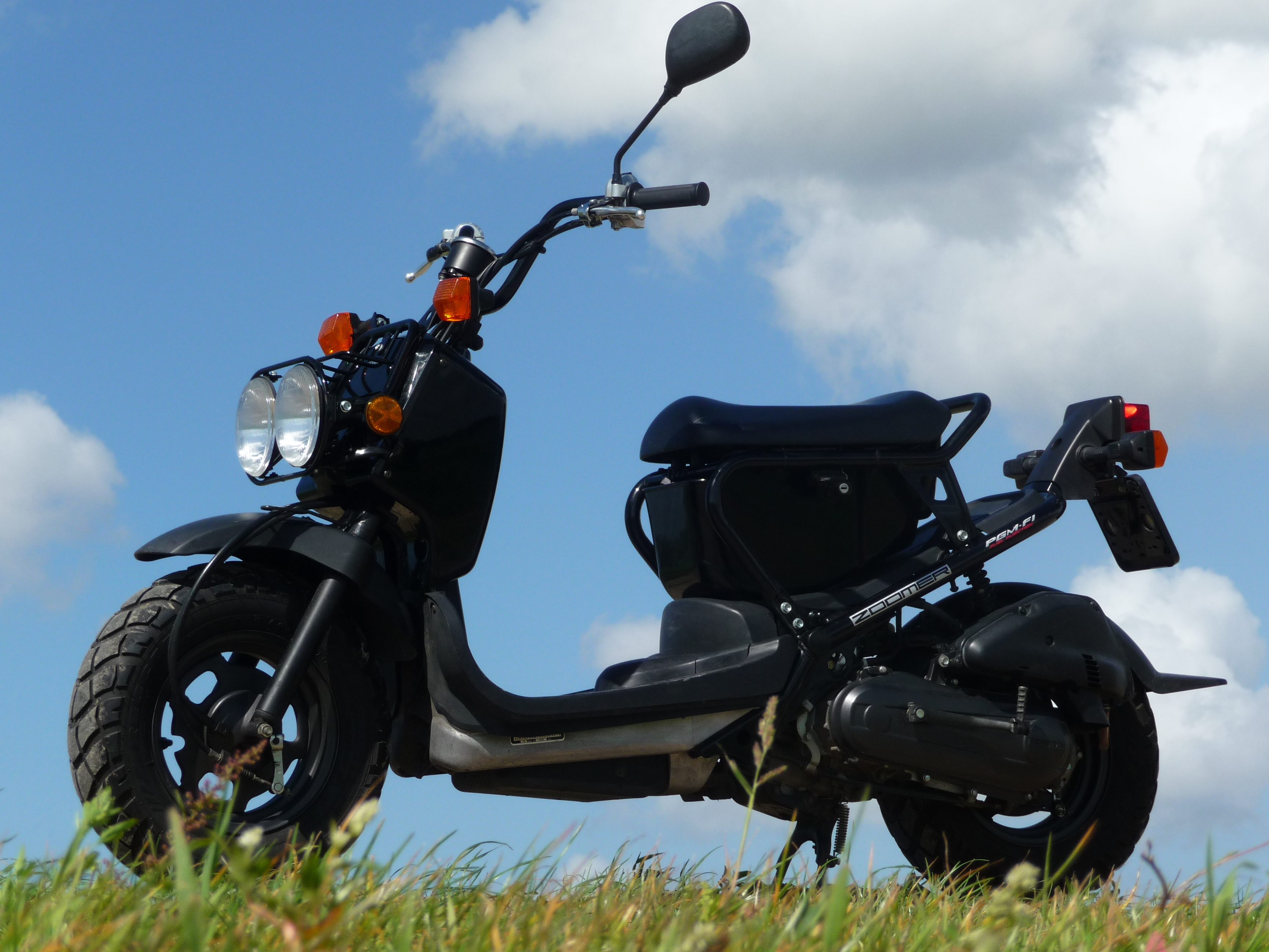 Honda Zoomer